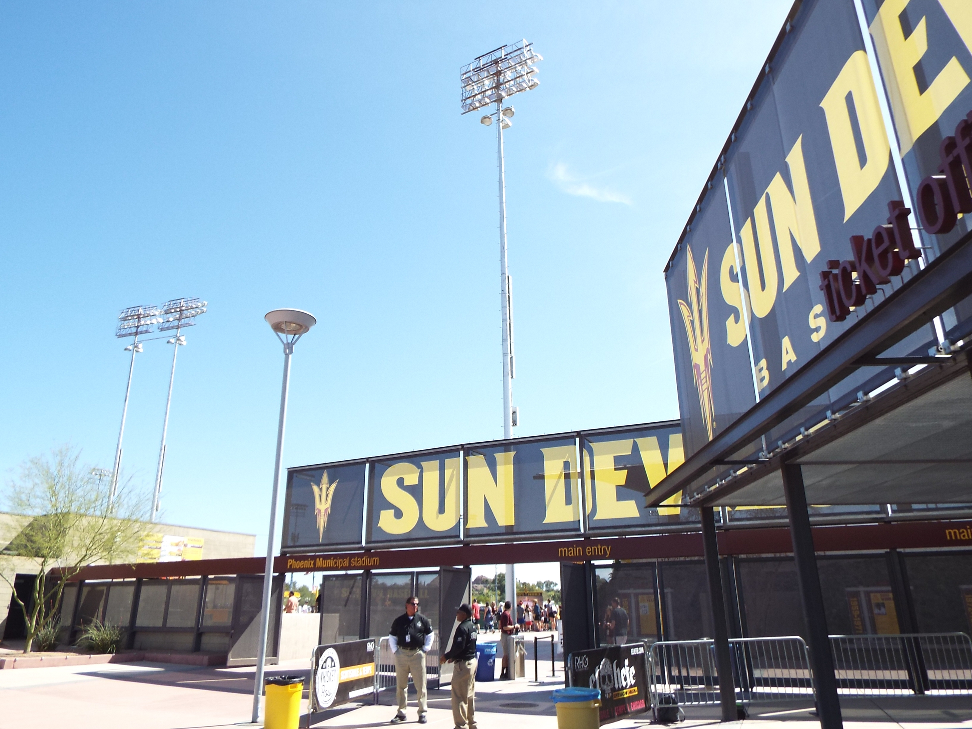 The main entrance of the Phoenix Municipal Stadium. The stadium was built in 1964 and is located at 5999 E. Van Buren Street in Phoenix, Az.